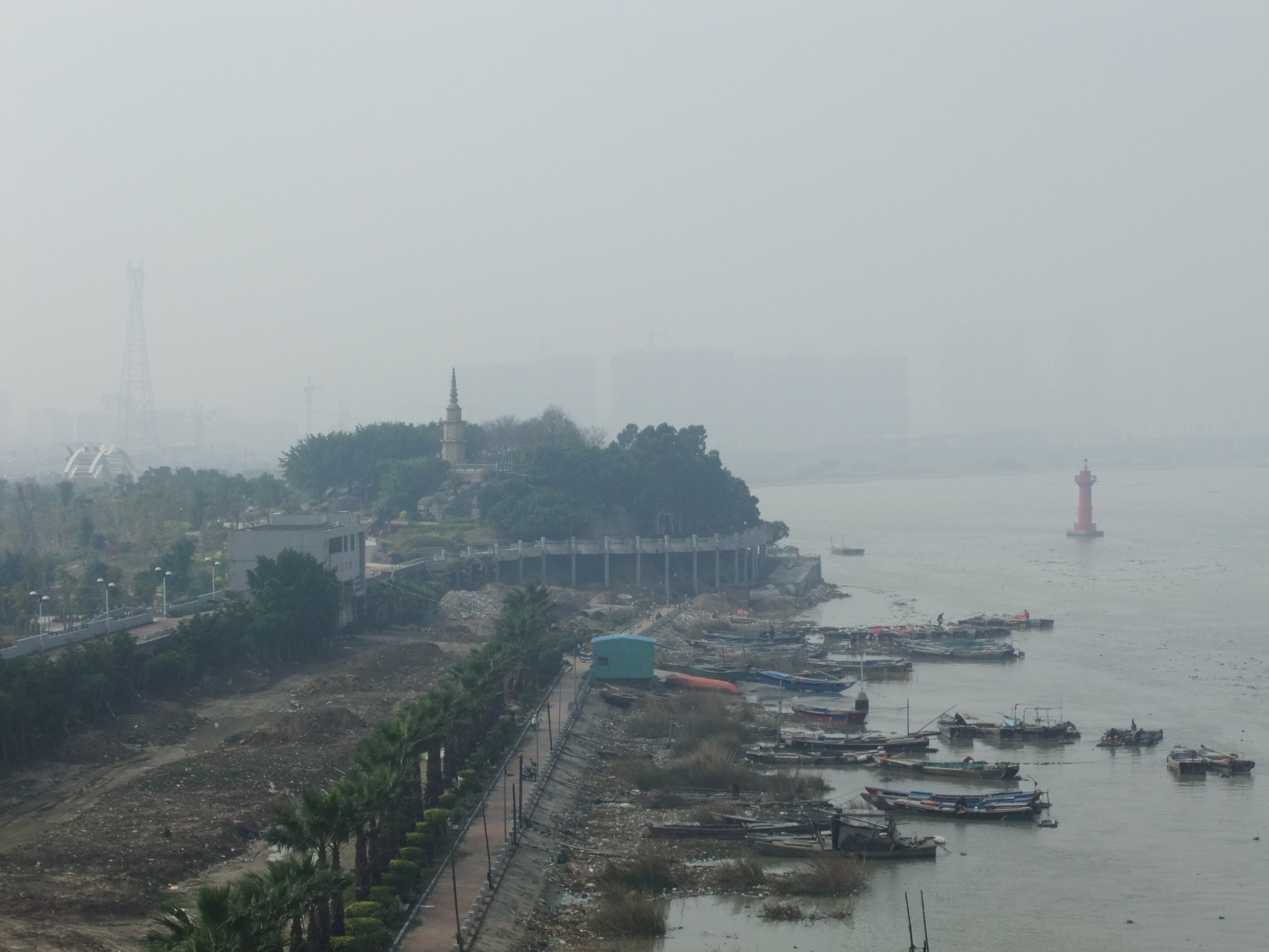 Fujian's Jin River, seen from Quanzhou's Zitong Bridge, looking upstream (i.e. more or less to the west or NW). The northern bank of the river is in Fengze District (part of Quanzhou's central urban area), the southern bank is in Jinjiang City.